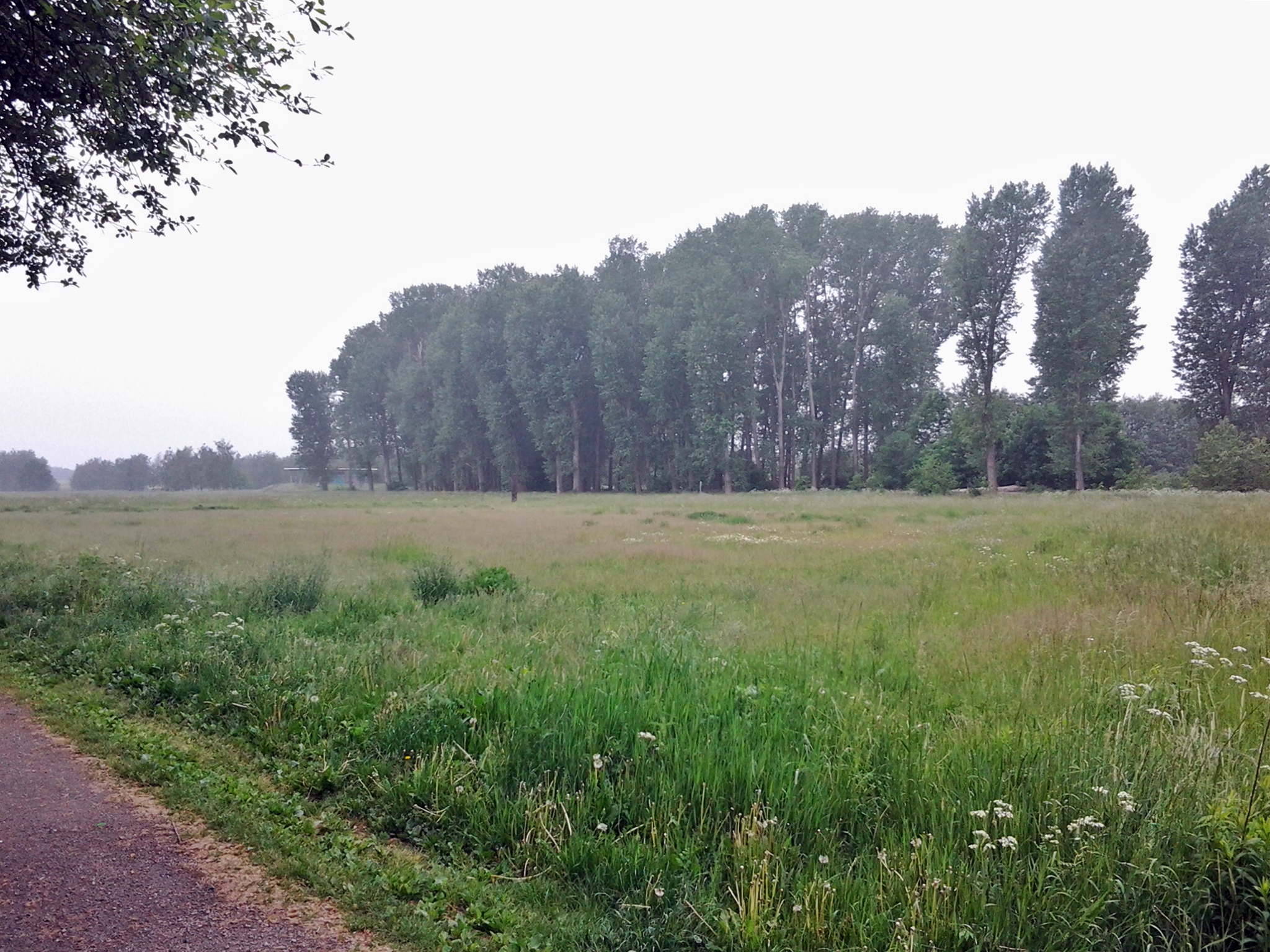 Outskirts Park New Meadows